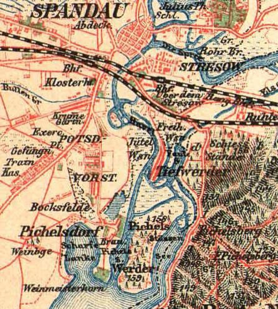 Map of Pichelsdorf in 1899